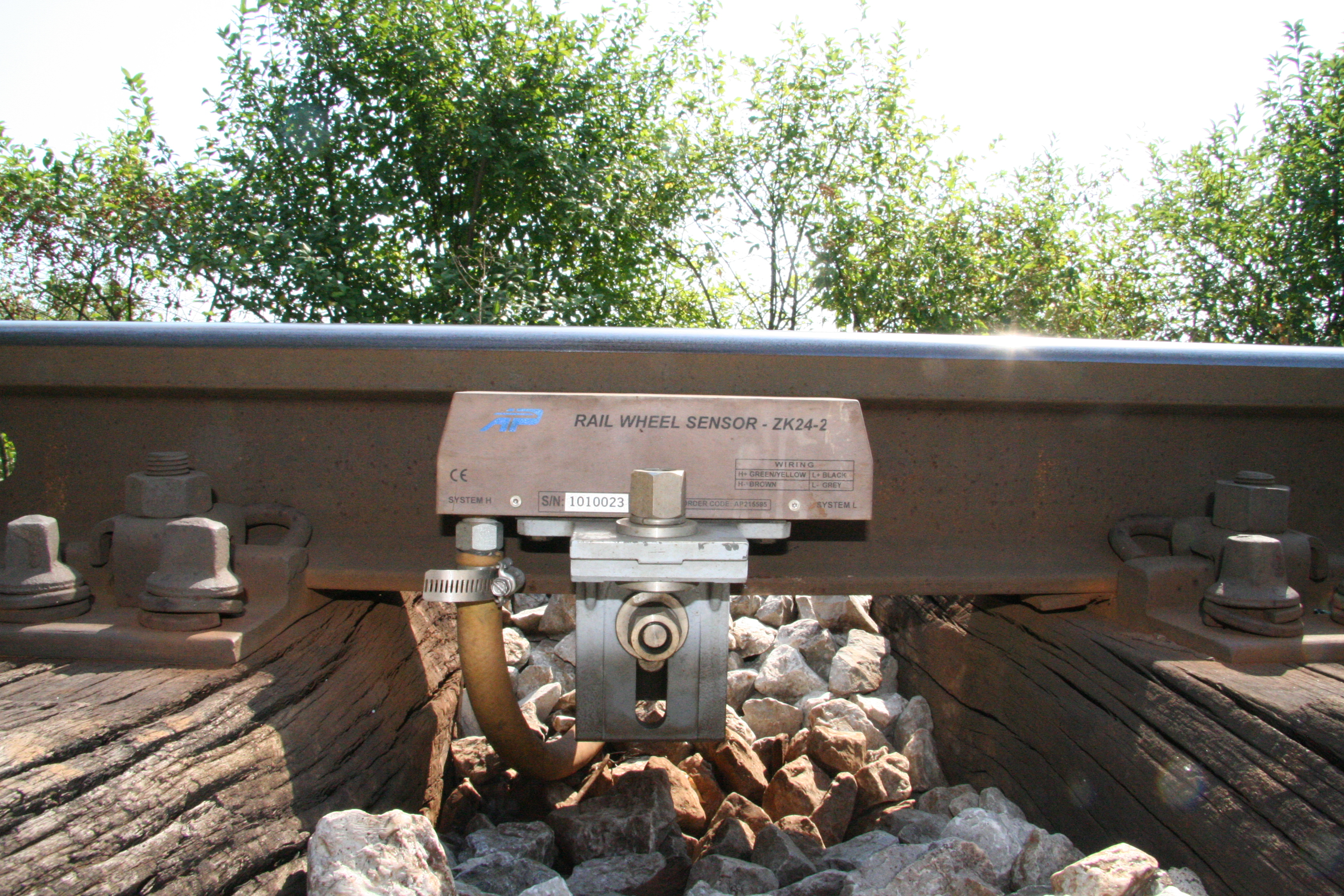 ALTPRO ZK24-2 Axle Counter / Wheel Sensor